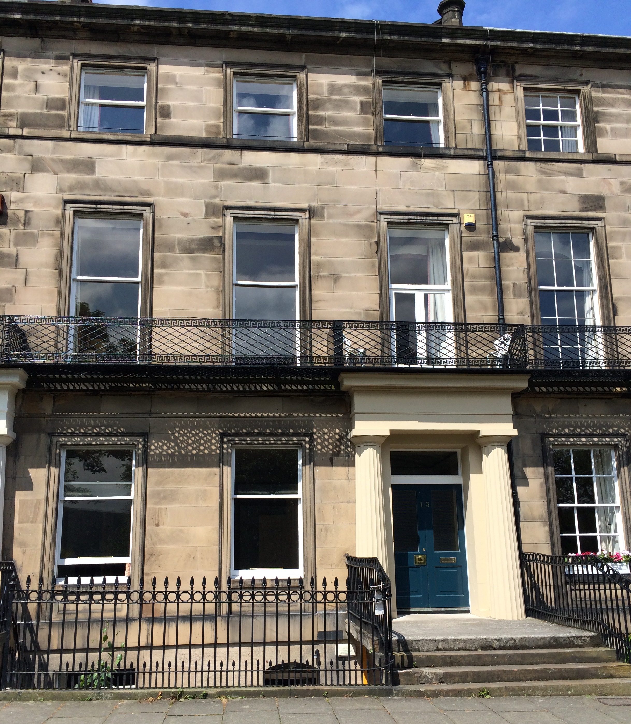 13 Regent Terrace, Edinburgh Wikidata has entry Q17570265 with data related to this item.